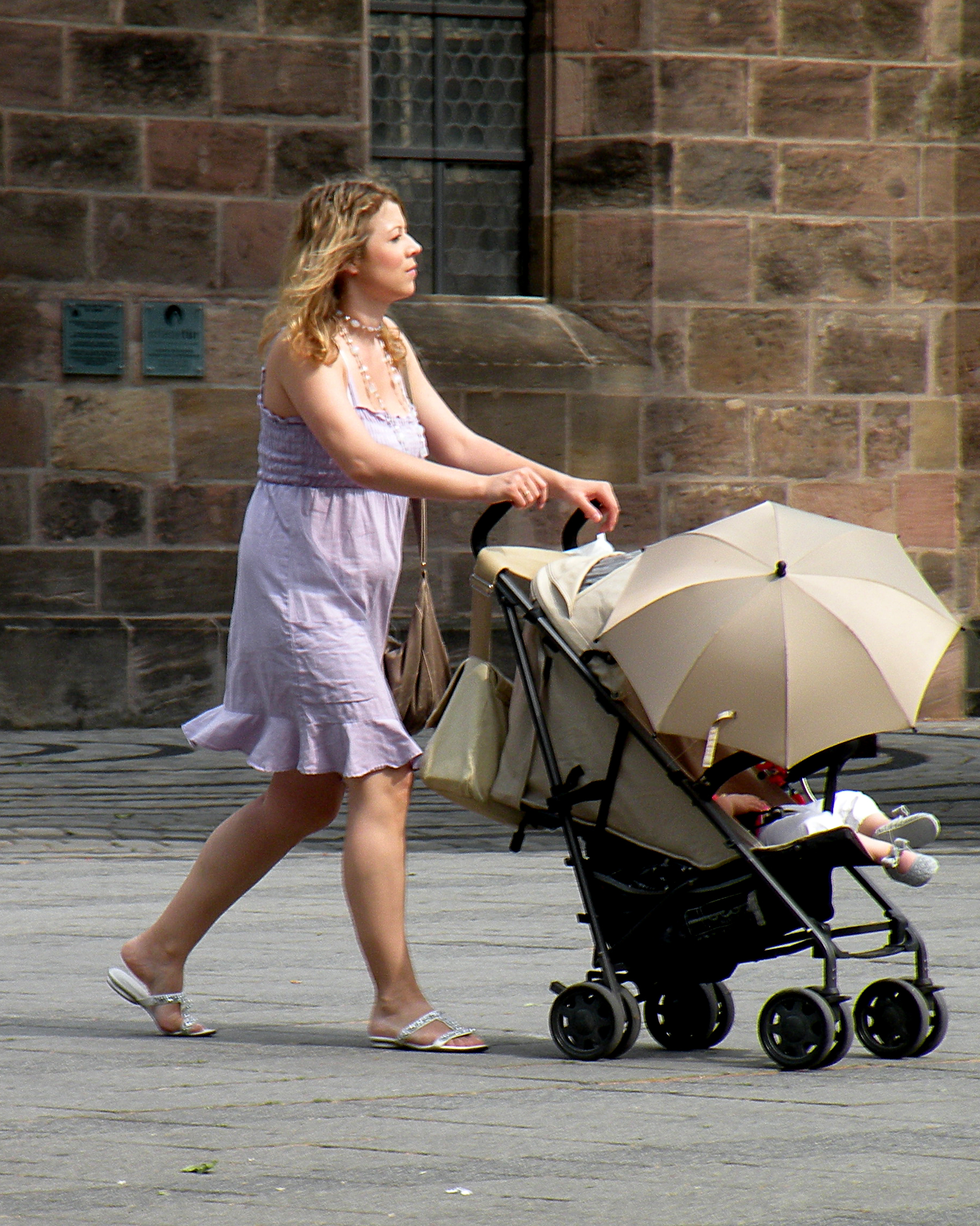 Baby cart